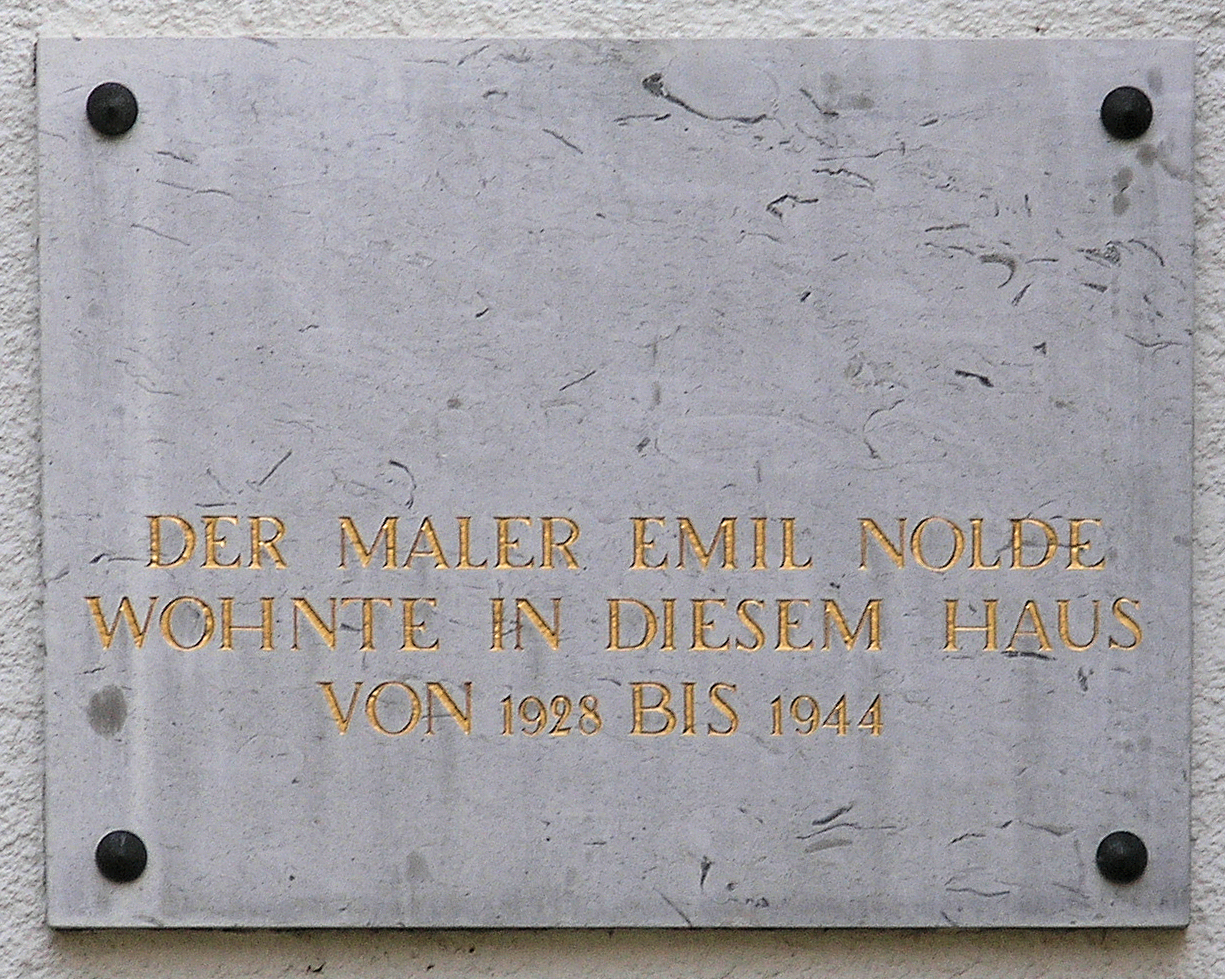 Memorial plaque, Emil Nolde, Bayernallee 11, Berlin-Westend, Germany Koordinate:52°30′46.5″N 13°15′48″E / 52.512917°N 13.26333°E